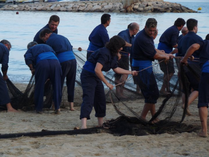 Picture of the "Calada de les Malles de Sant Pere" by the Fishermen's Association "Santa Maria del Mar", in the Catalan town of Salou.